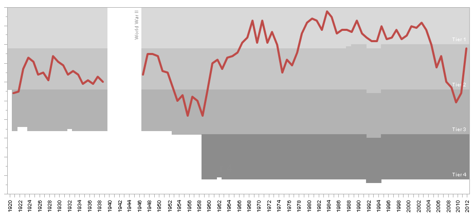 Graph showing Southampton F.C.'s progress through the English football league system 1921-2012